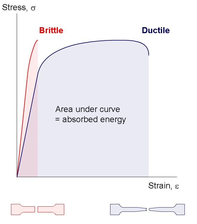 Stress-strain curves for brittle and ductile materials. Brittle materials fracture at low strains and absorb little energy. Conversely, ductile materials fail after significant plastic strain (deformation) and absorb more energy. Note that in this idealised example, the yield and ultimate tensile stresses are the same for both materials; brittle or ductile behaviour are not necessarily related to strength.